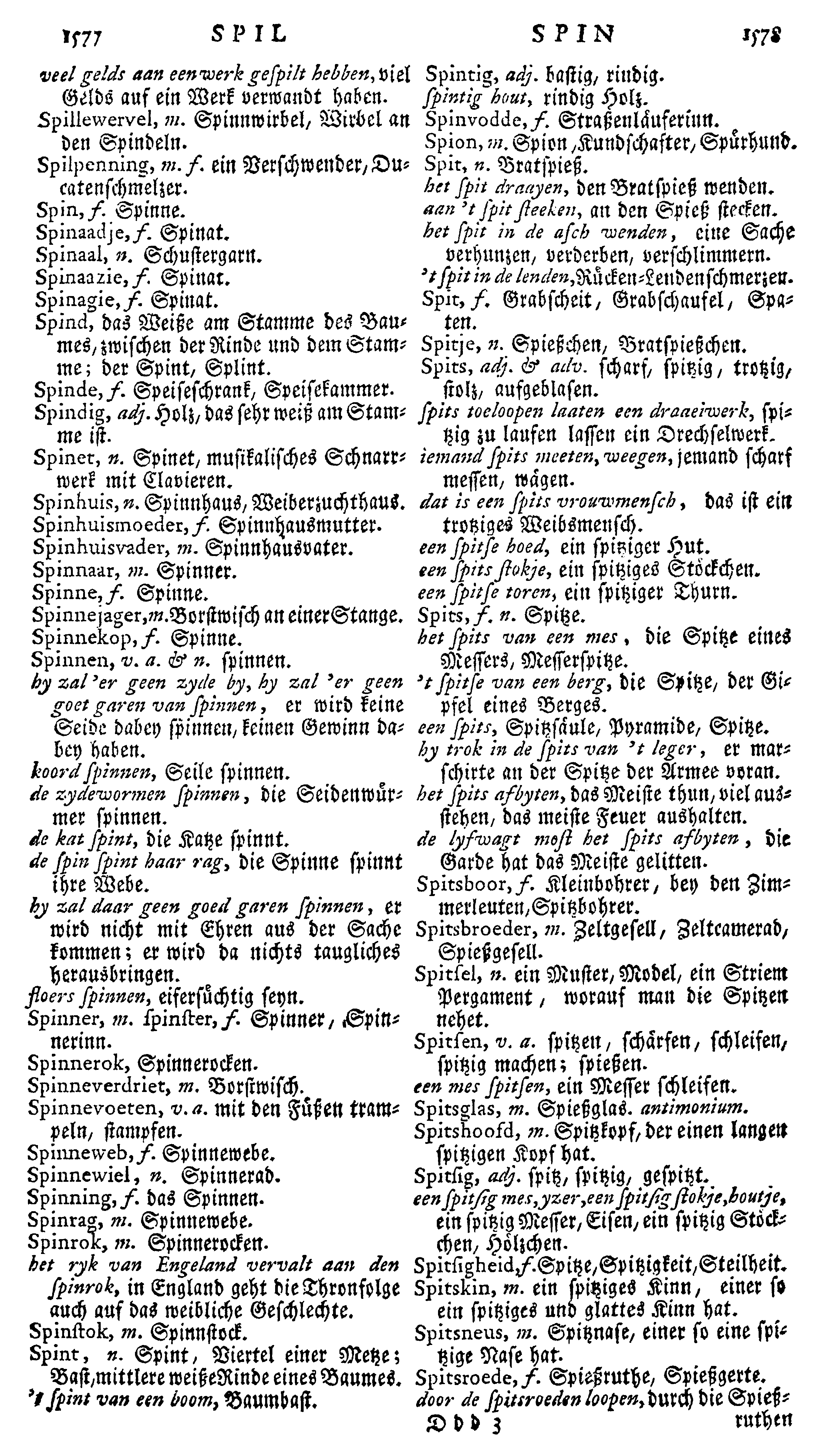 New Dutch-German and German-Dutch dictionary. Leipzig, 1759. By Matthias Kramer (1640–1729).